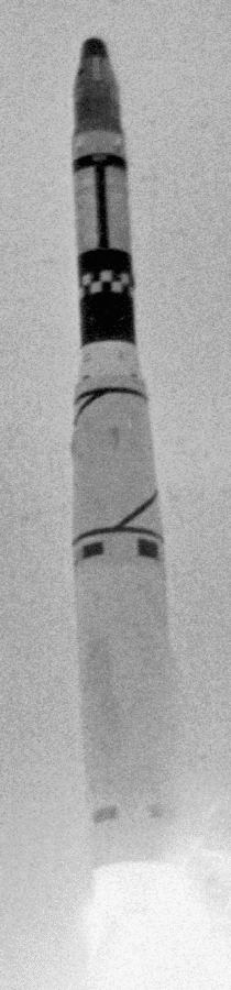 Thor Agena D with Corona 67 spy satellite